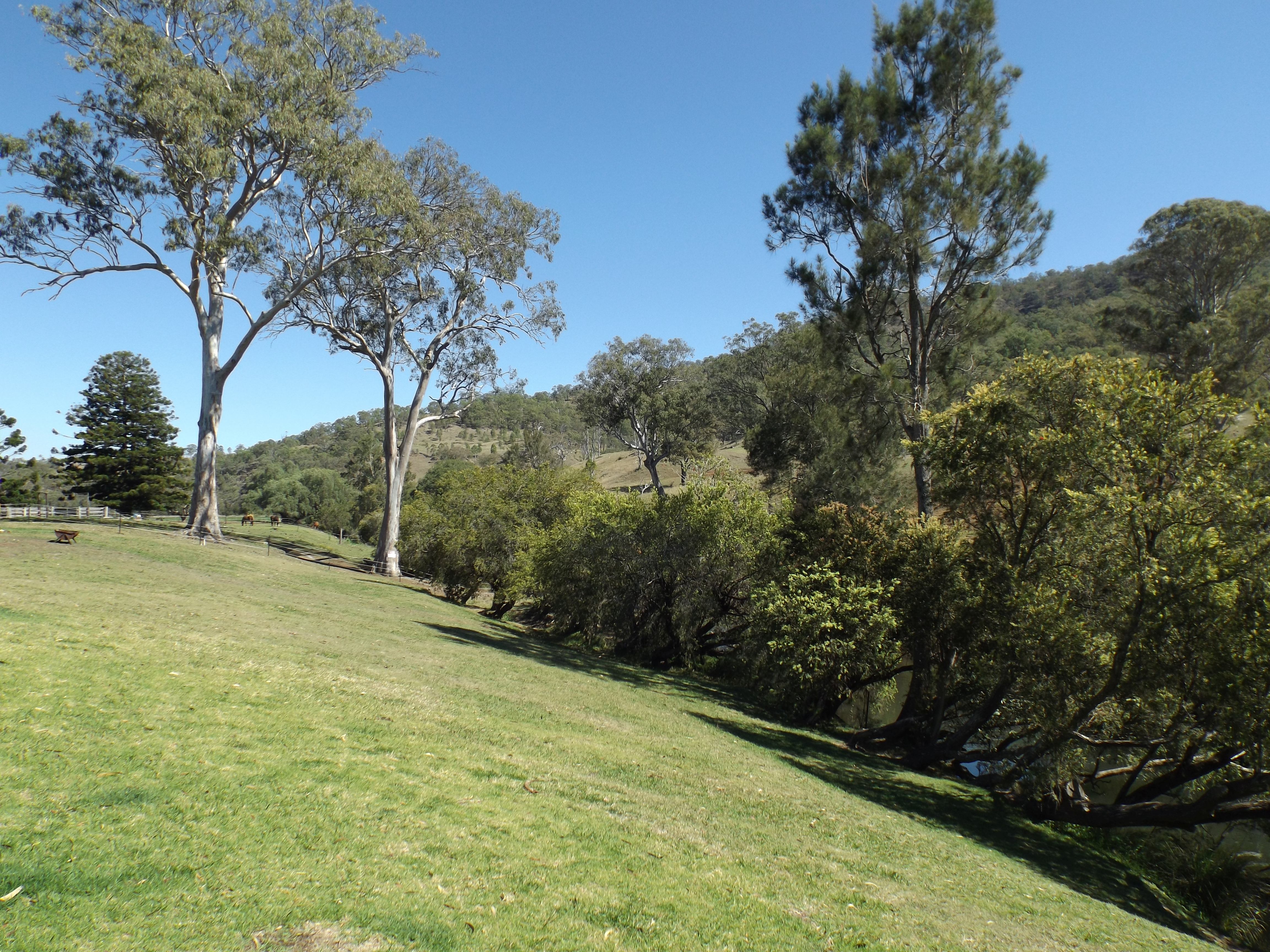 Photo of Darlington Park along Albert River at Darlington, Scenic Rim Region, Queensland, Australia.